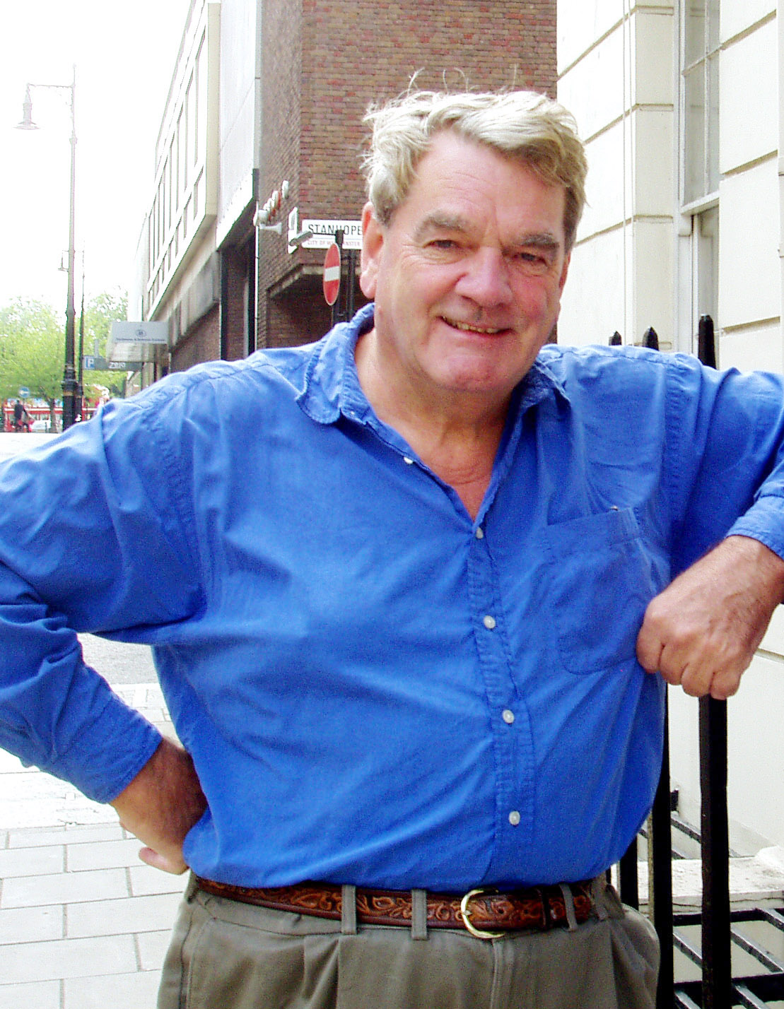 British historian David Irving and his daughter.